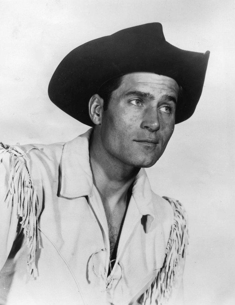 Photo of Clint Walker as Cheyenne from the television show of the same name.